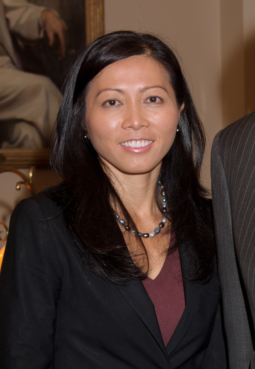 Miranda Du